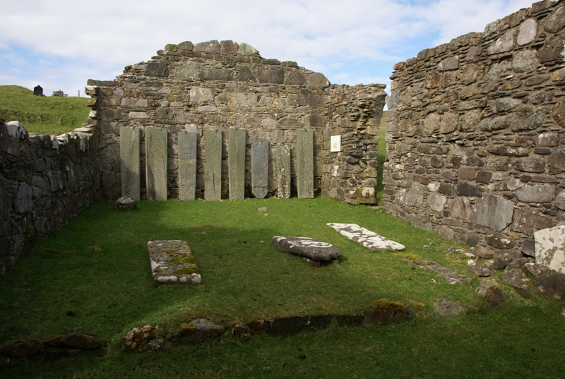 Inchkenneth Chapel, Inch Kenneth, Argyll and Bute, Scotland. Interior: nave.